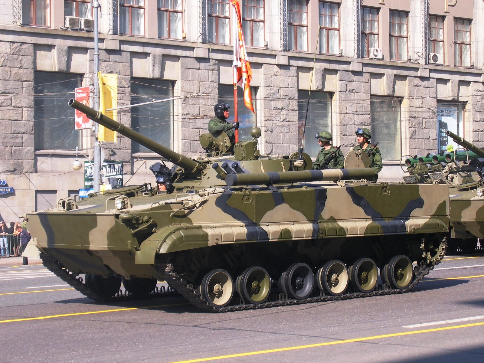 Rehearsal for the 2008 Moscow May Parade.